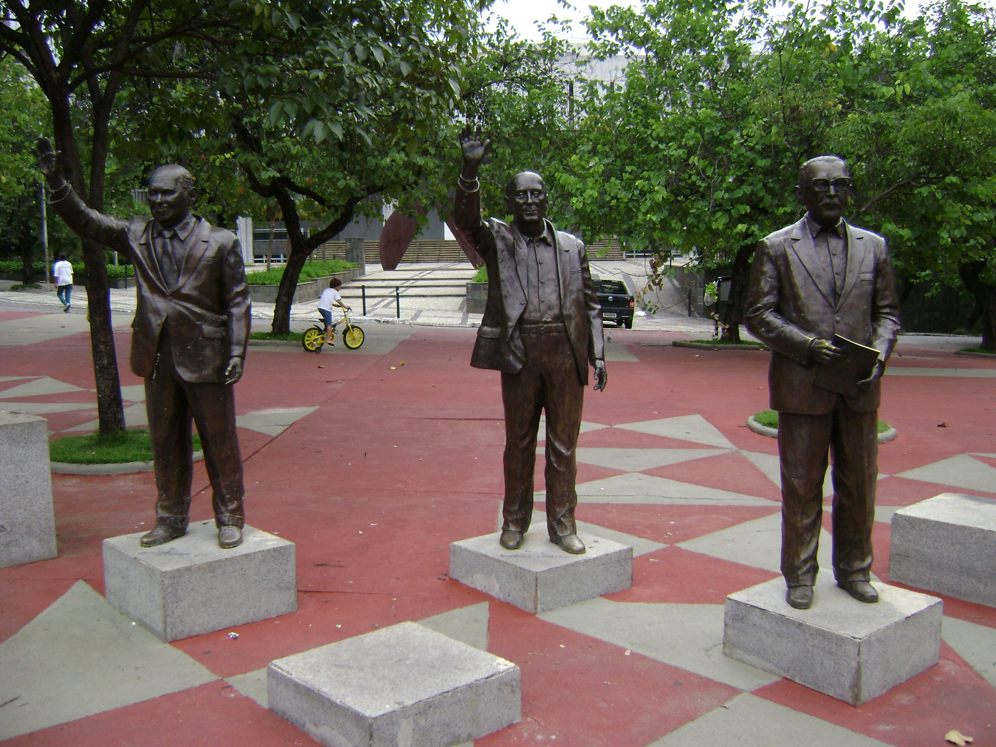 Estátuas na Praça da Assembleia, em Belo Horizonte.